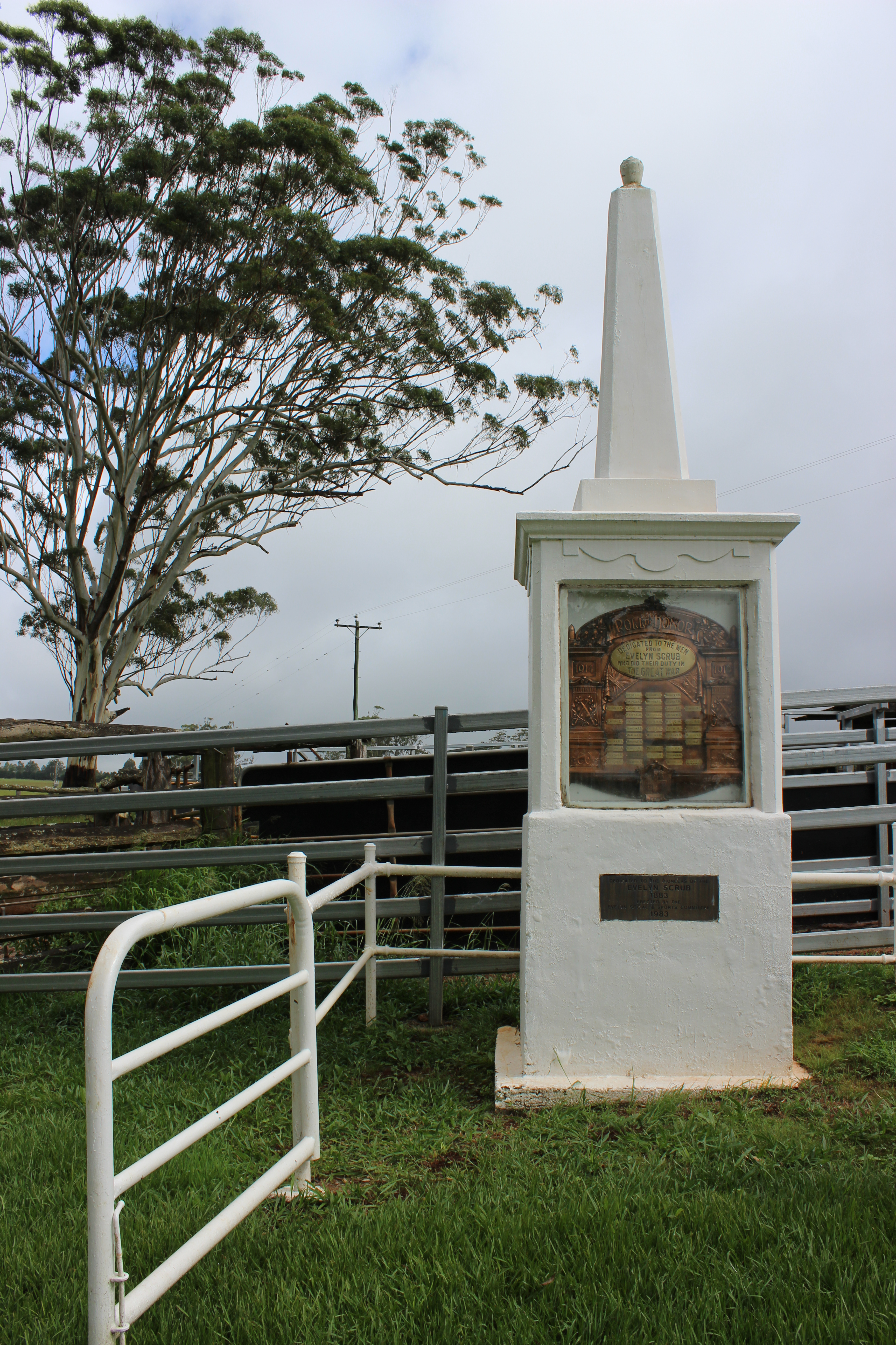 The Evelyn Scrub First World War memorial, built ca.1919, listing 41 names of men from the Evelyn district who served in the war.